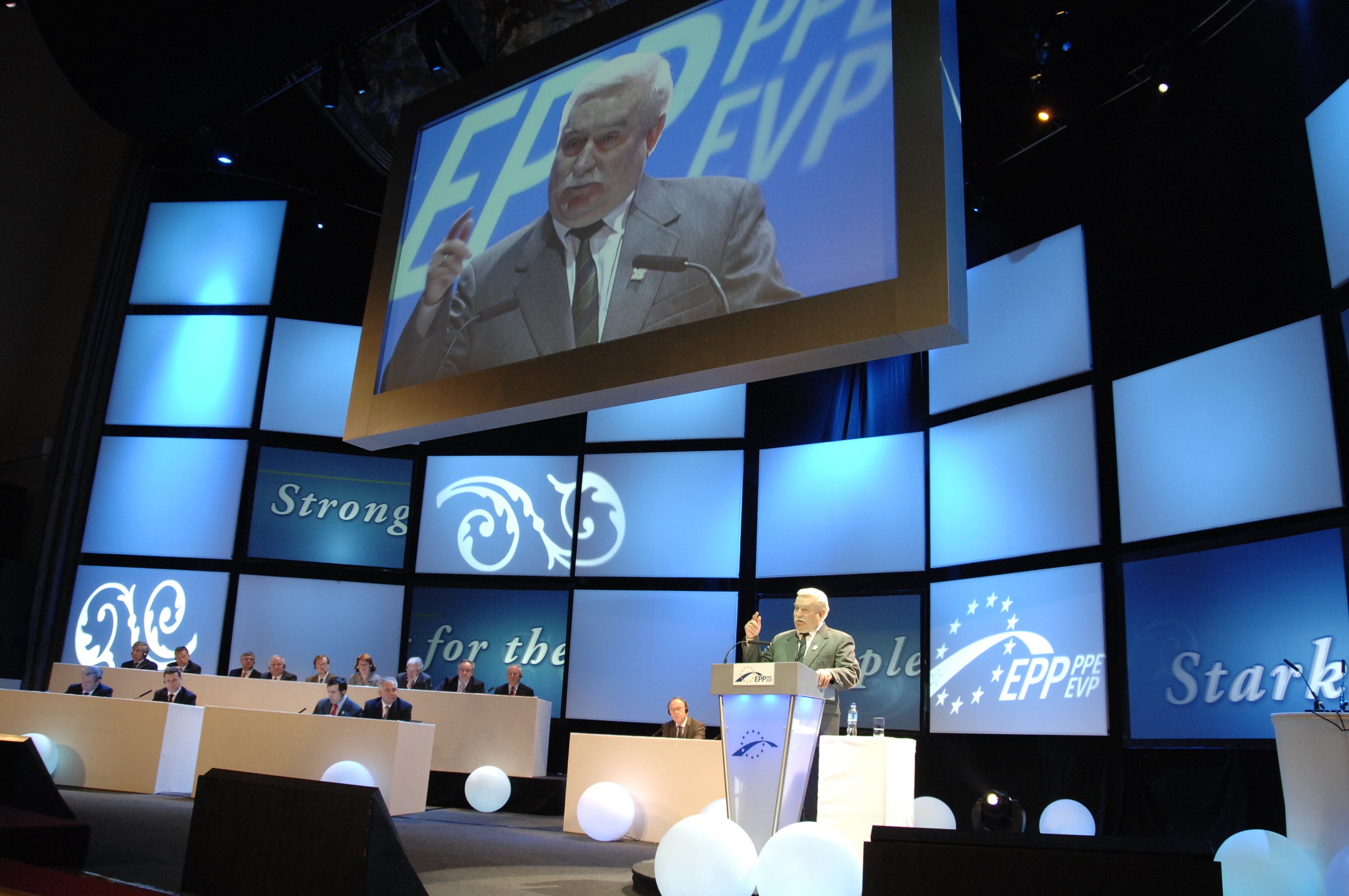 EPP Congress Warsaw